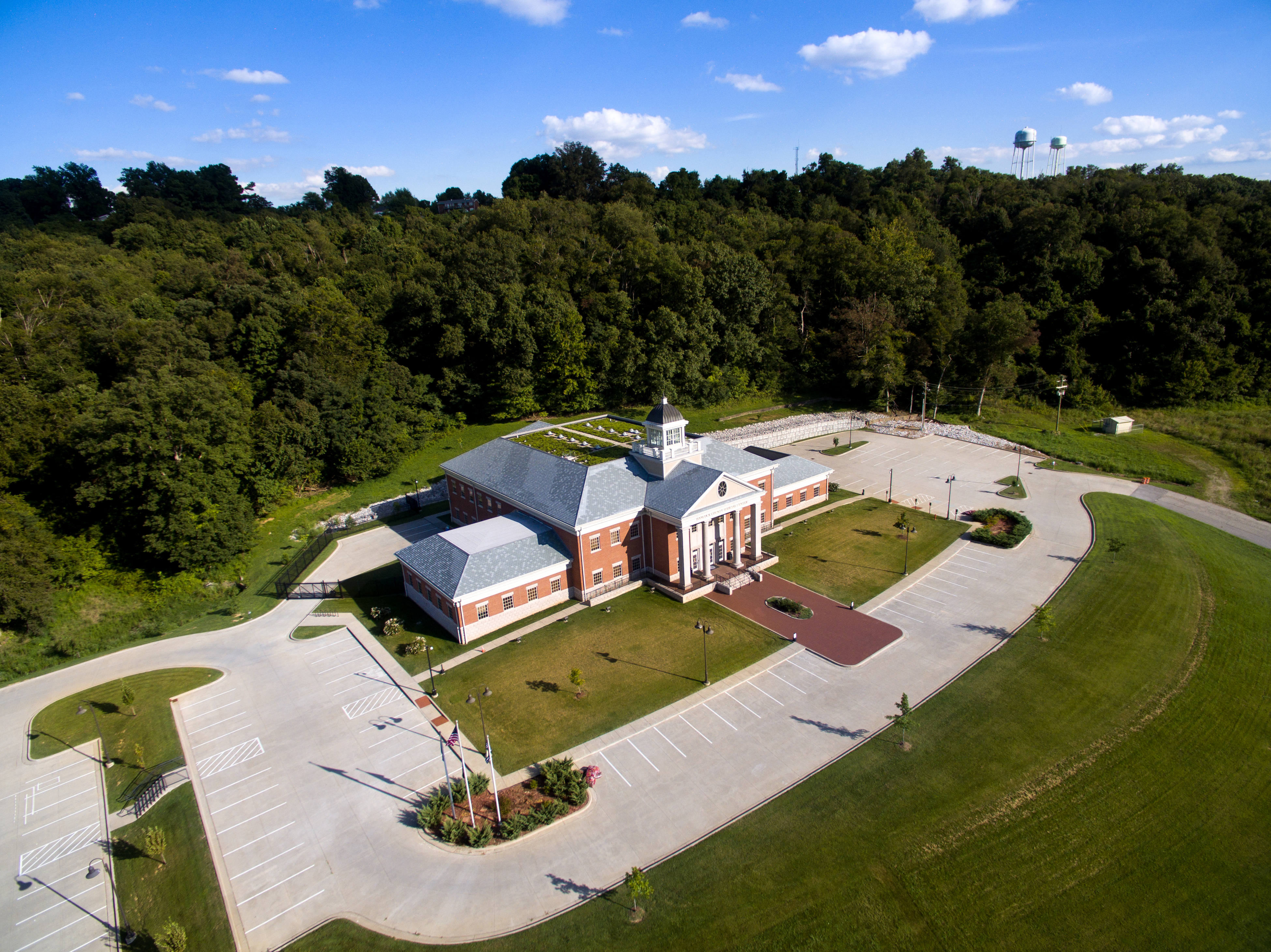 An Aerial photo of the Hancock County courthouse. Facing away from the old courthouse, due southeast.